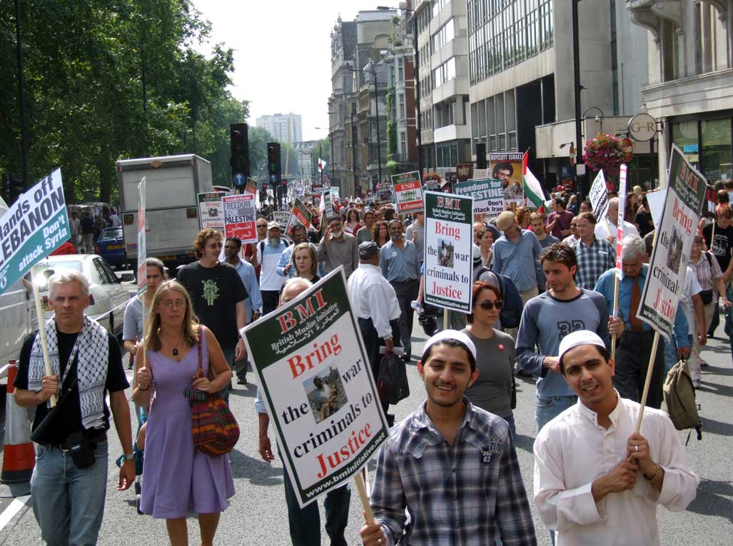 On 5 August 2006, some 60,000 people demonstrated in London in support of Lebanon in the 2006 Israel-Lebanon conflict.